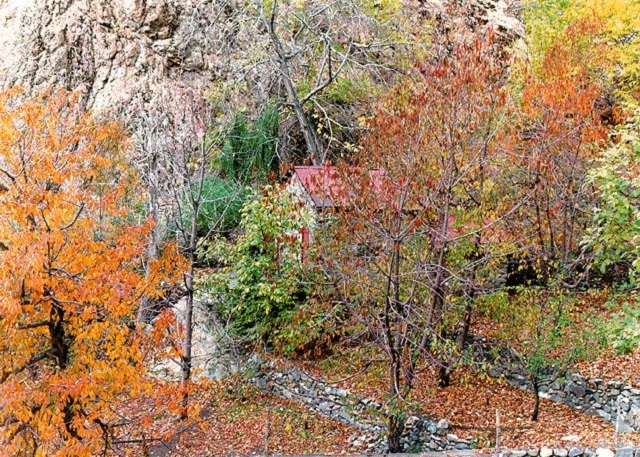 North of Iran, Shomal.